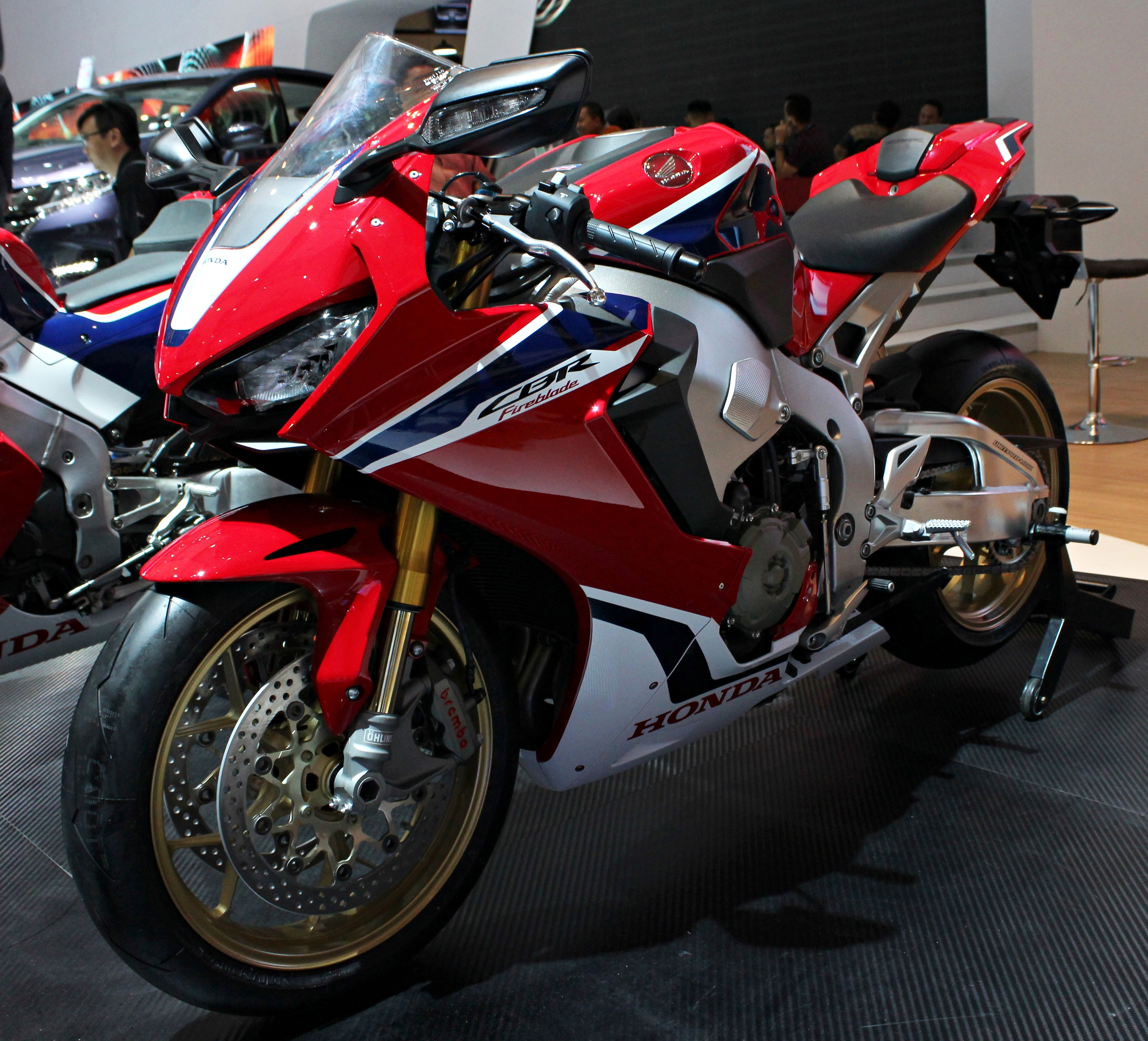 A Honda CBR1000RR Fireblade SP1 photographed in Indonesia International Motor Show 2018, Jakarta, Indonesia on April 26, 2018.